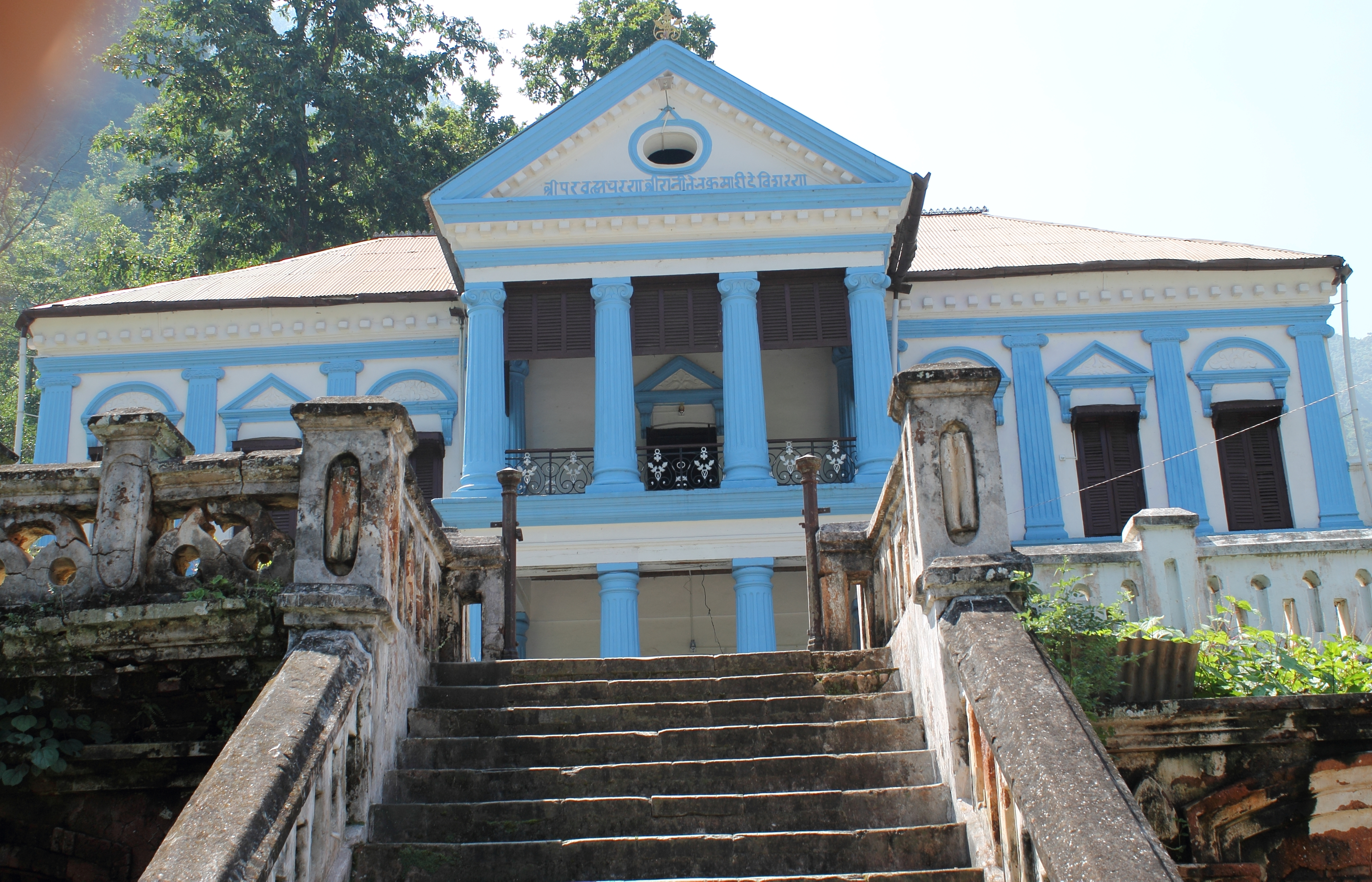 Front view of The Ranighat Palace Palpa District Nepal